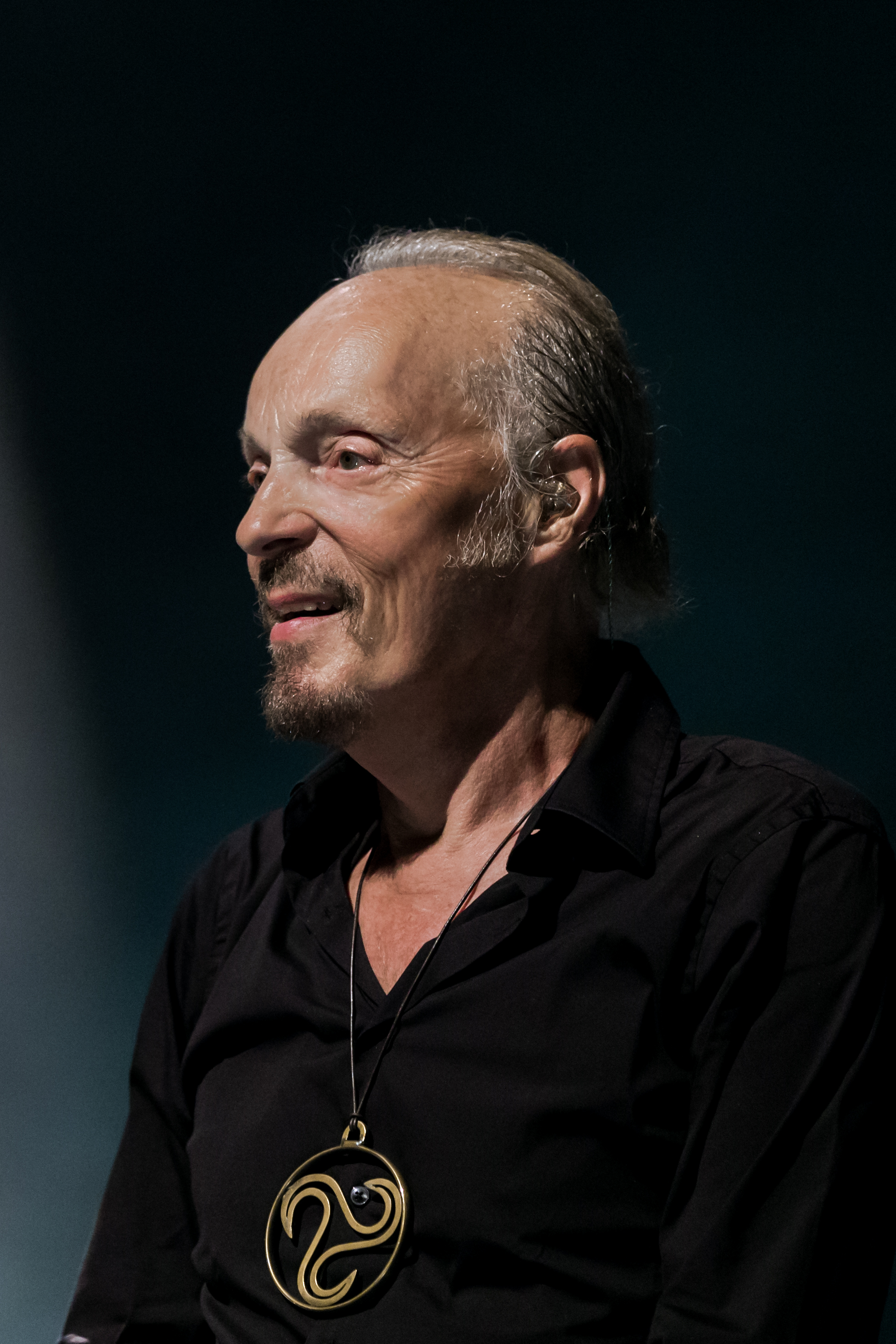 Alan Stivell in live during Cornouaille Festival (Quimper, Brittany) July 22, 2016.